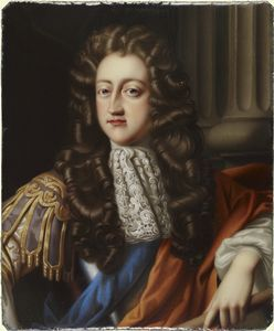 A miniature of Prince George of Denmark, husband of Queen Anne, bought by Prince Albert of Saxe-Coburg and Gotha, husband of Queen Victoria.